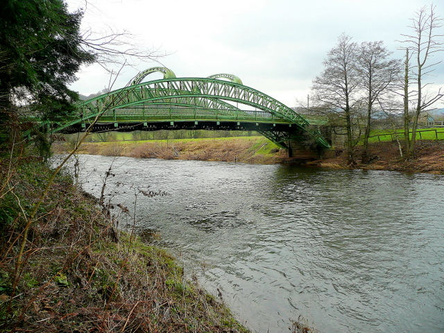 River Usk and Chain Bridge Built in 1906 to replace an earlier toll bridge, this is a good example of girder arch bridgebuilding.